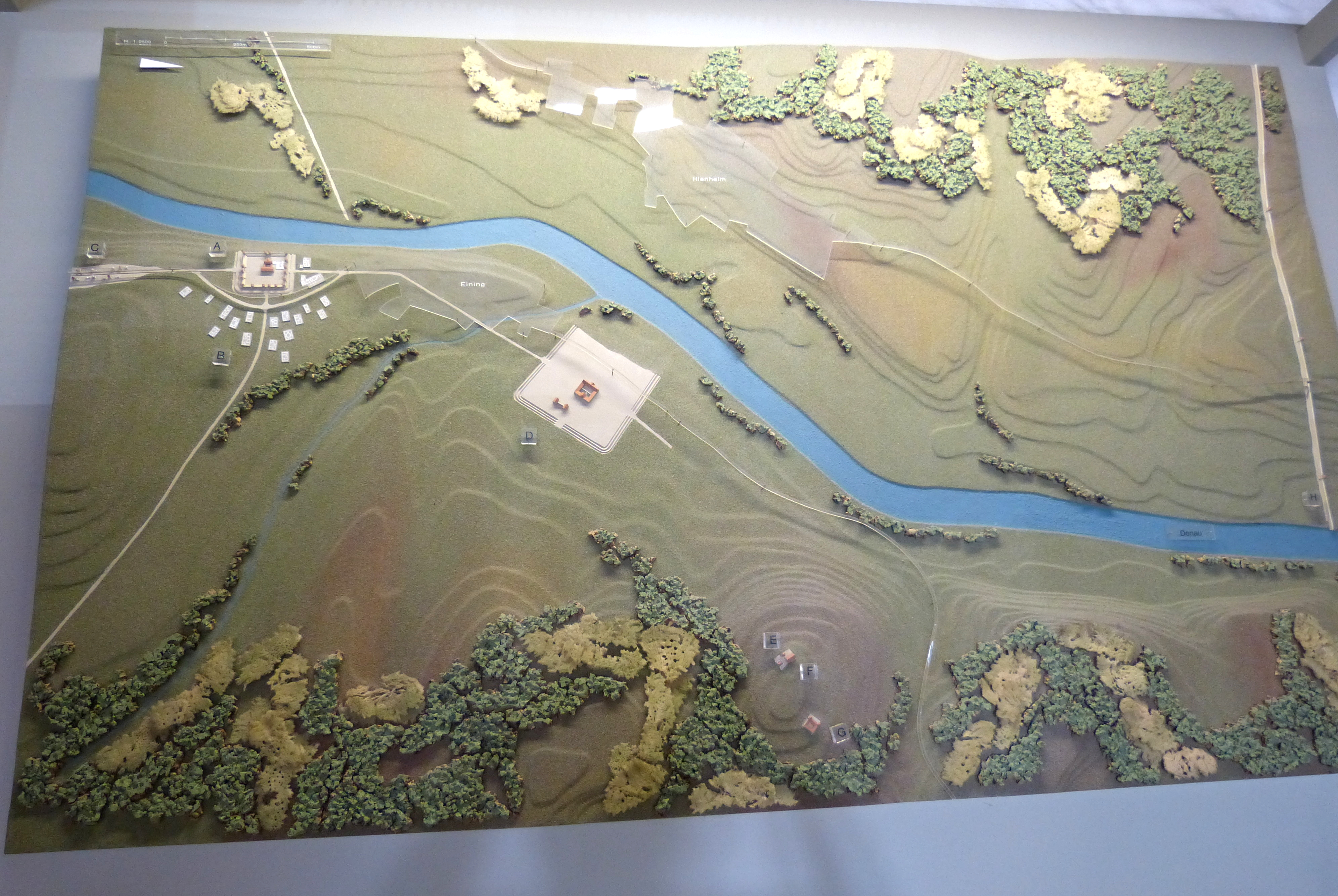 Kelheim ( Lower Bavaria ). Archaeological Museum: Model of ancient Roman Abusina ( Eining ) and surroundings.